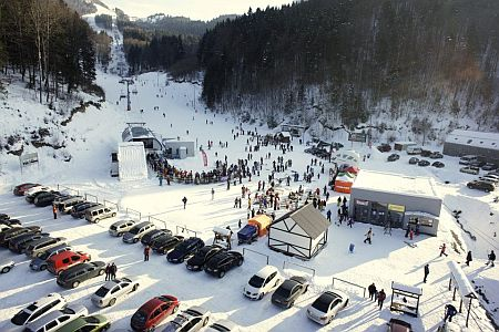 Salamandra Resort_Stiavnicke vrchy